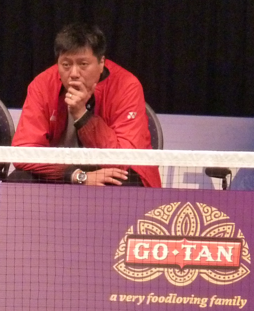 Aryono Miranat (Indonesian coach)